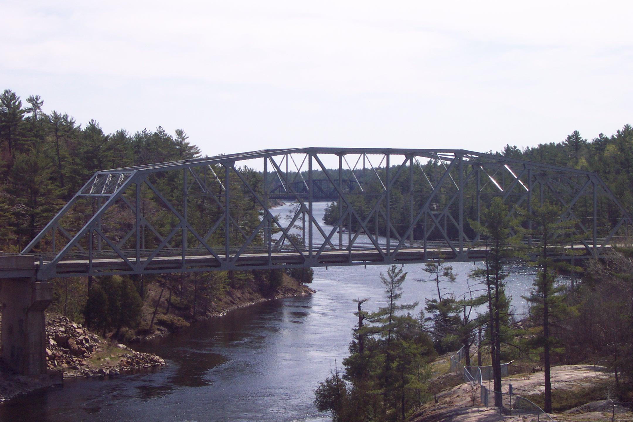 This is an image of the French River standing on the snowmobile bridge looking at the road bridge. This road trip stop is on Highway 69 North of Parrysound.